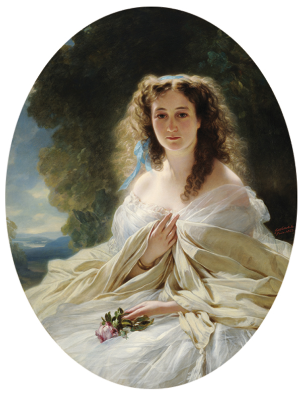 Princess Olympiada Vladimirovna Bariatinskaia (1822-1904, née Sablukova)